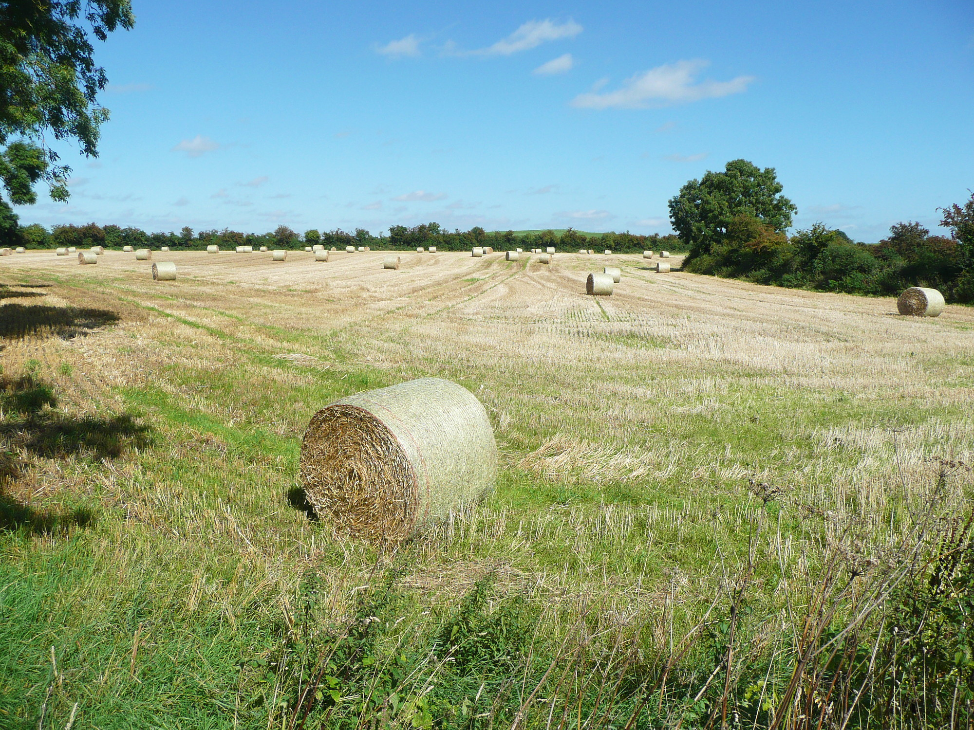 Hay Bales in south of Carlow town, Co. Carlow